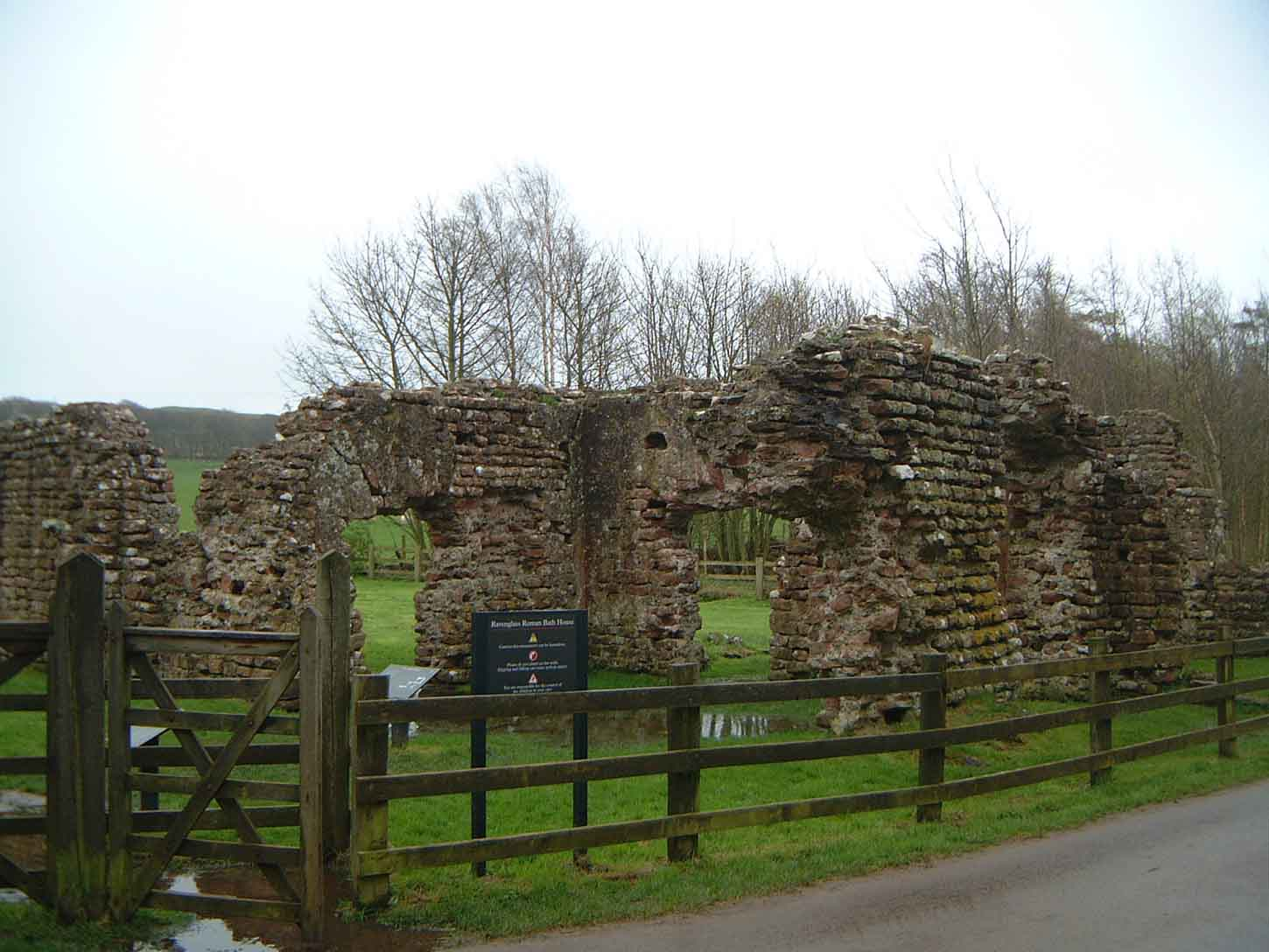 Personal photograph taken by Mick Knapton, April 2005.